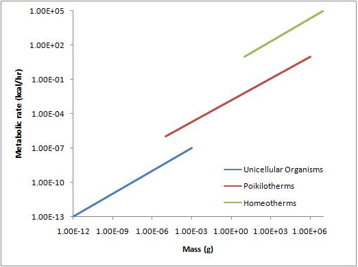 Graph of metabolic rate (kcal/hr) versus body mass (g) across broad taxonomic groups - Adapted - A. HEMMINGSEN, Energy metabolism as related to body size and respiratory surfaces, and its evolution. Rep. Steno. Mem. Hosp. 9 (1960), pp. 1–110.